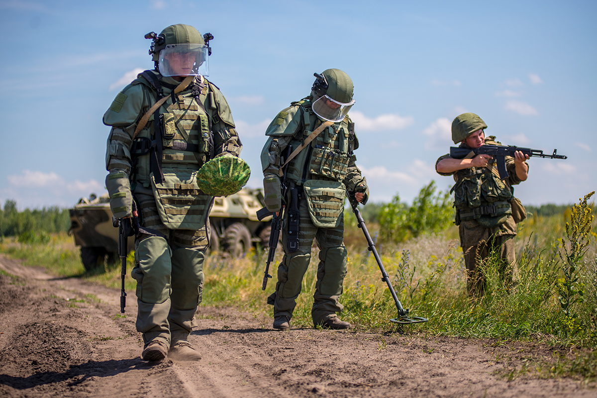 3rd Motor Rifle Division of the Russian Armed Forces.